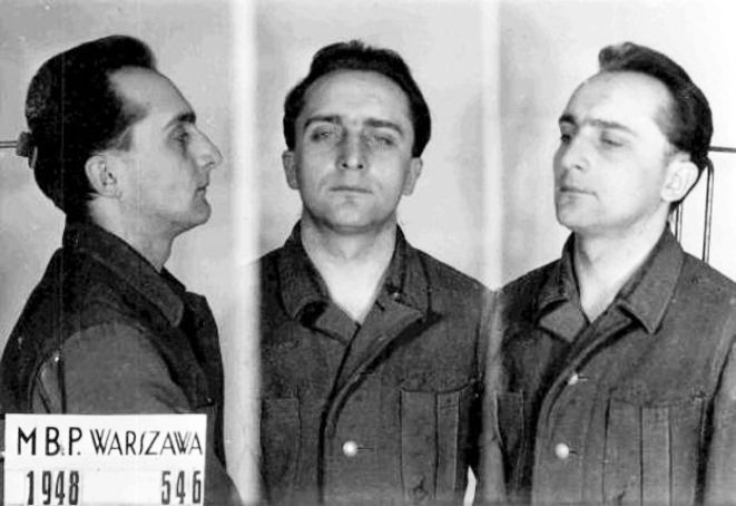 Tadeusz Pelak (1922-1949) – soldier of Armia Krajowa and Wolność i Niezawisłość in rank of Lieutnant. Arrested, executed.